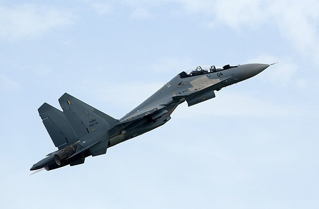 Runa Simi: Fighter Jet Demonstration In Langkawi International Maritime Air Show.